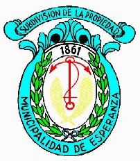 Coat of arms of Esperanza, a city in Santa Fe Province.